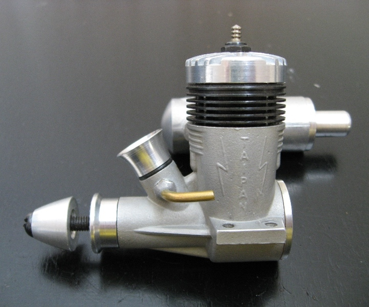 Taipan 2.5cc 1968 Glowplug model aeroplane engine